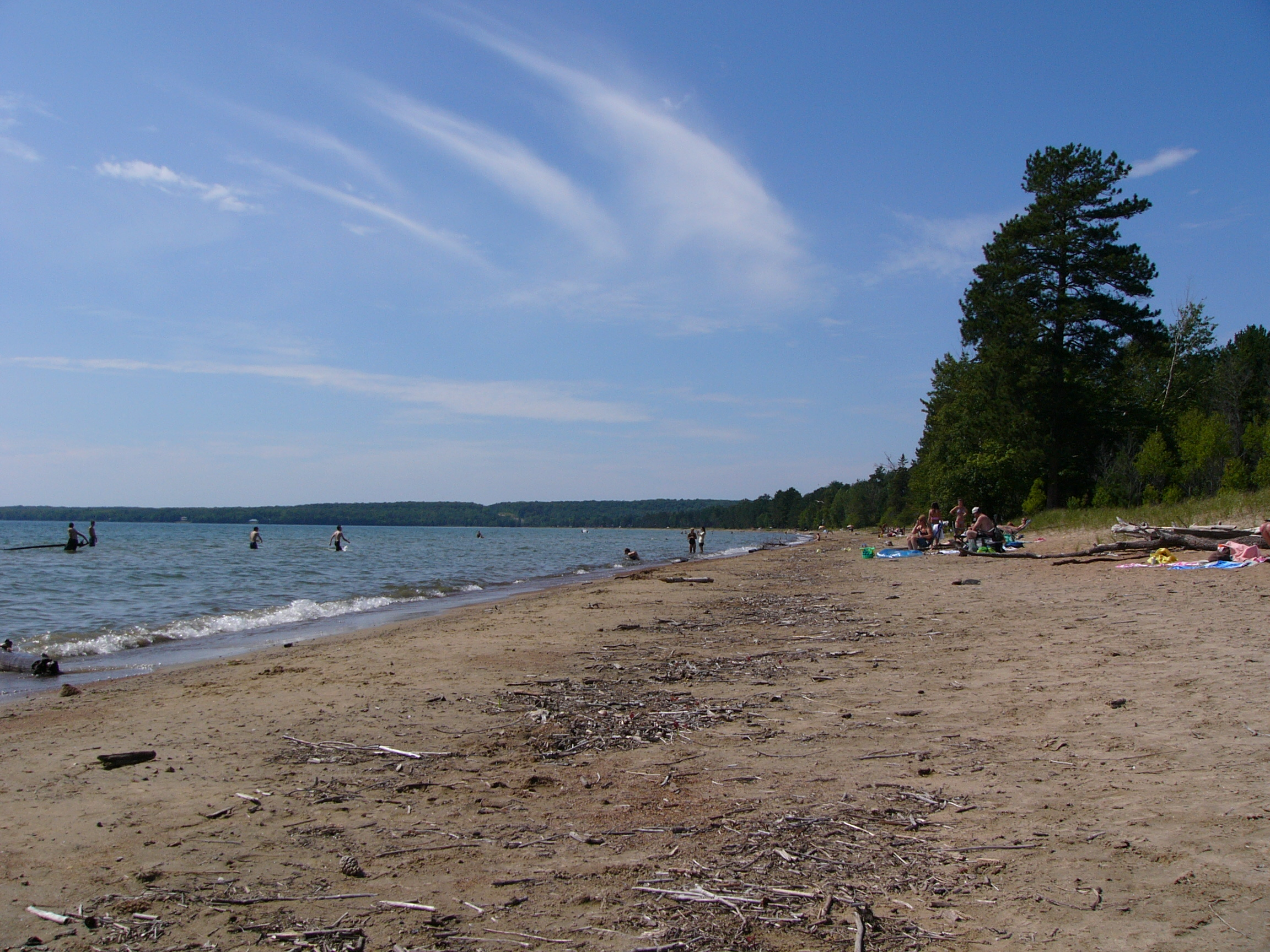 Batchawana Bay Provincial Park beach, Lake Superior, Ontario, Canada. Photo taken by me.